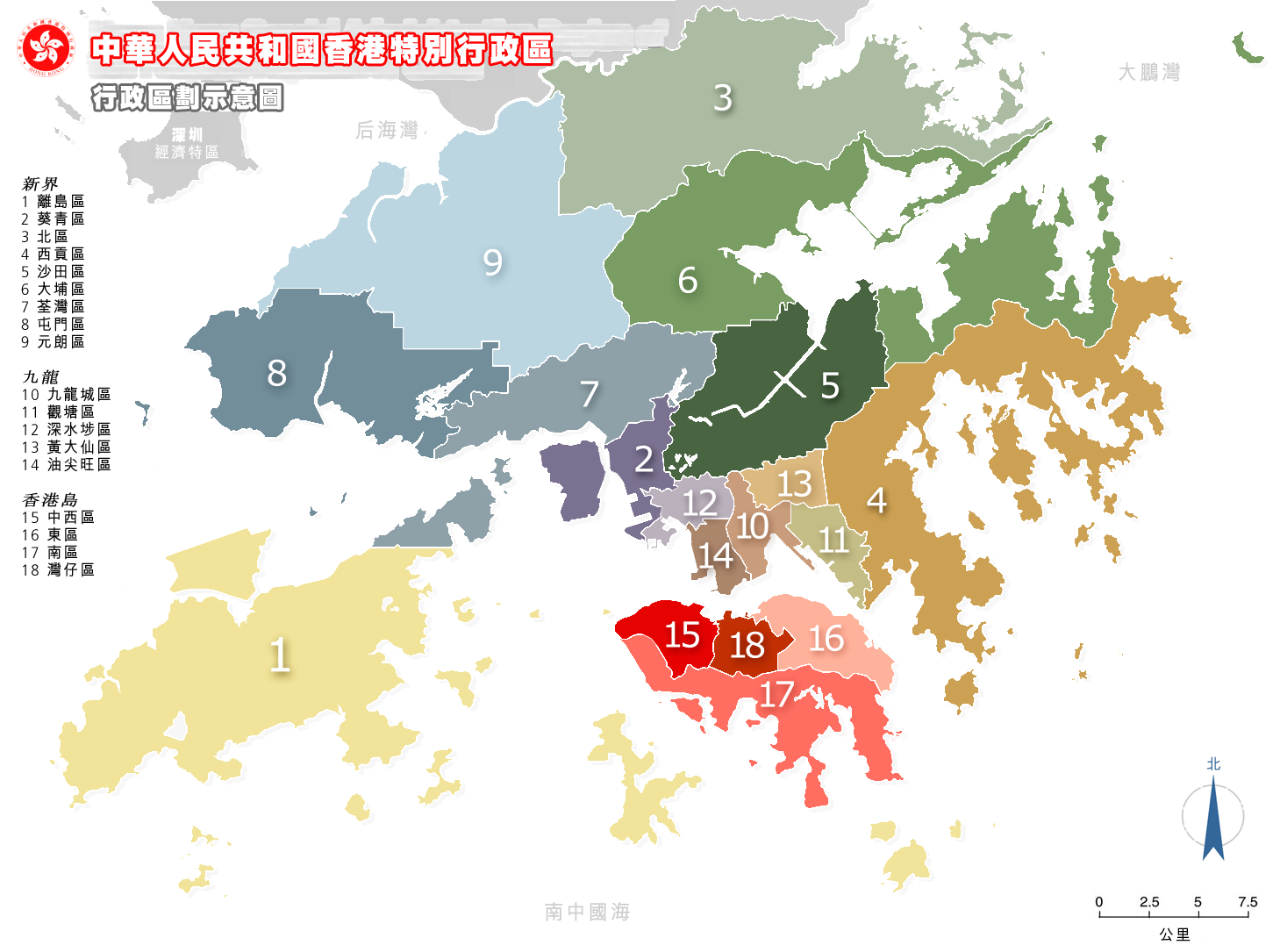 修改zh::image:Hk_map_18.png，原創者zh::en:User:Mcy jerry image:Hk_map_18.png Category:香港地图